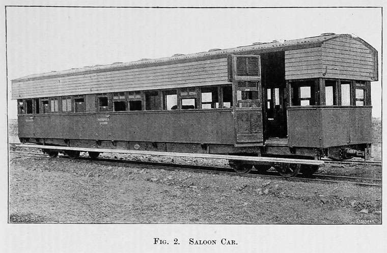 Barsi Light Railway rolling stock by Leeds Forge Co (1897)